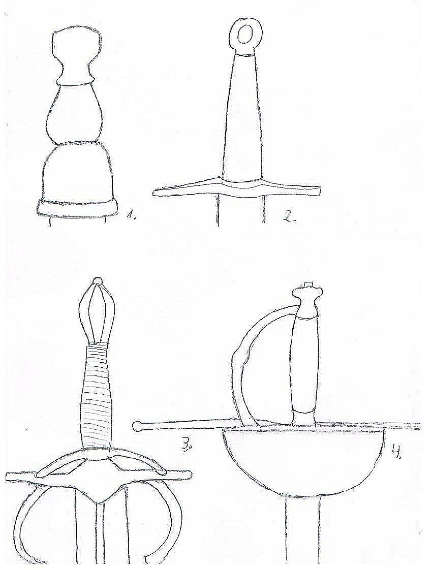 Types of hilts 1